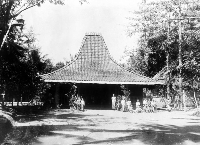 The house of the village head at Bawu